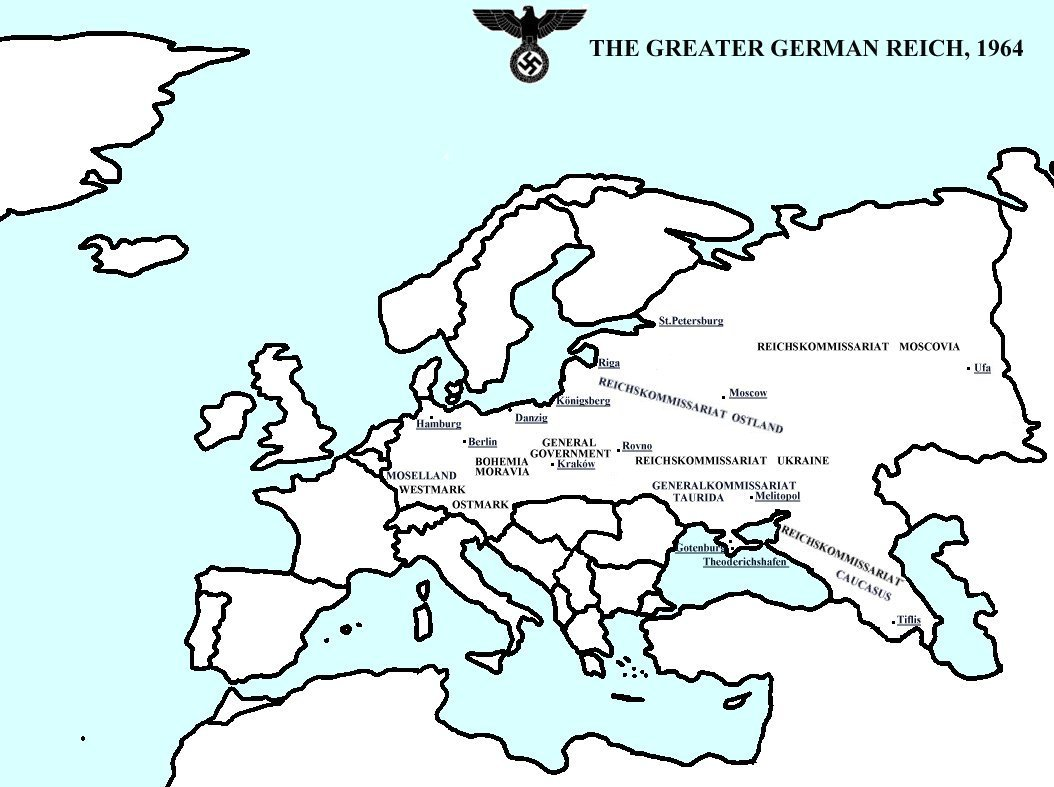 Fatherland's 1964 Europe